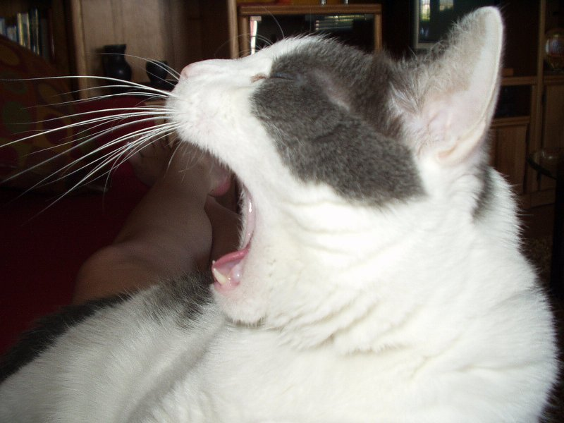 Cat yawning. Vibrissae are easily seen.